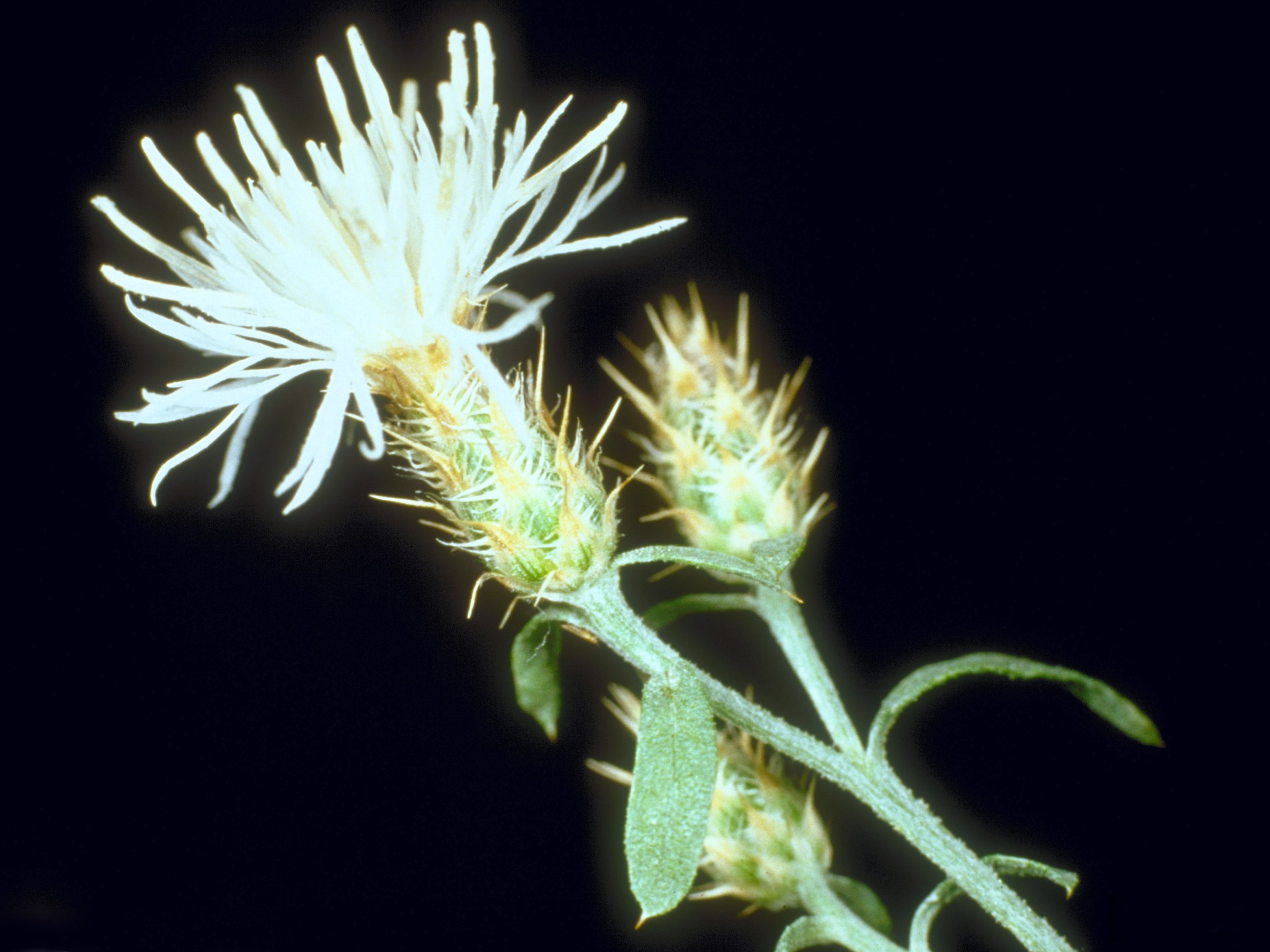 diffuse knapweed - Centaurea diffusa Lam. - flowers - United States